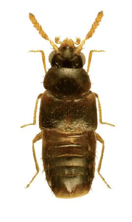 Dorsal view of Eumicrota corruscula (apical part of abdomen removed).